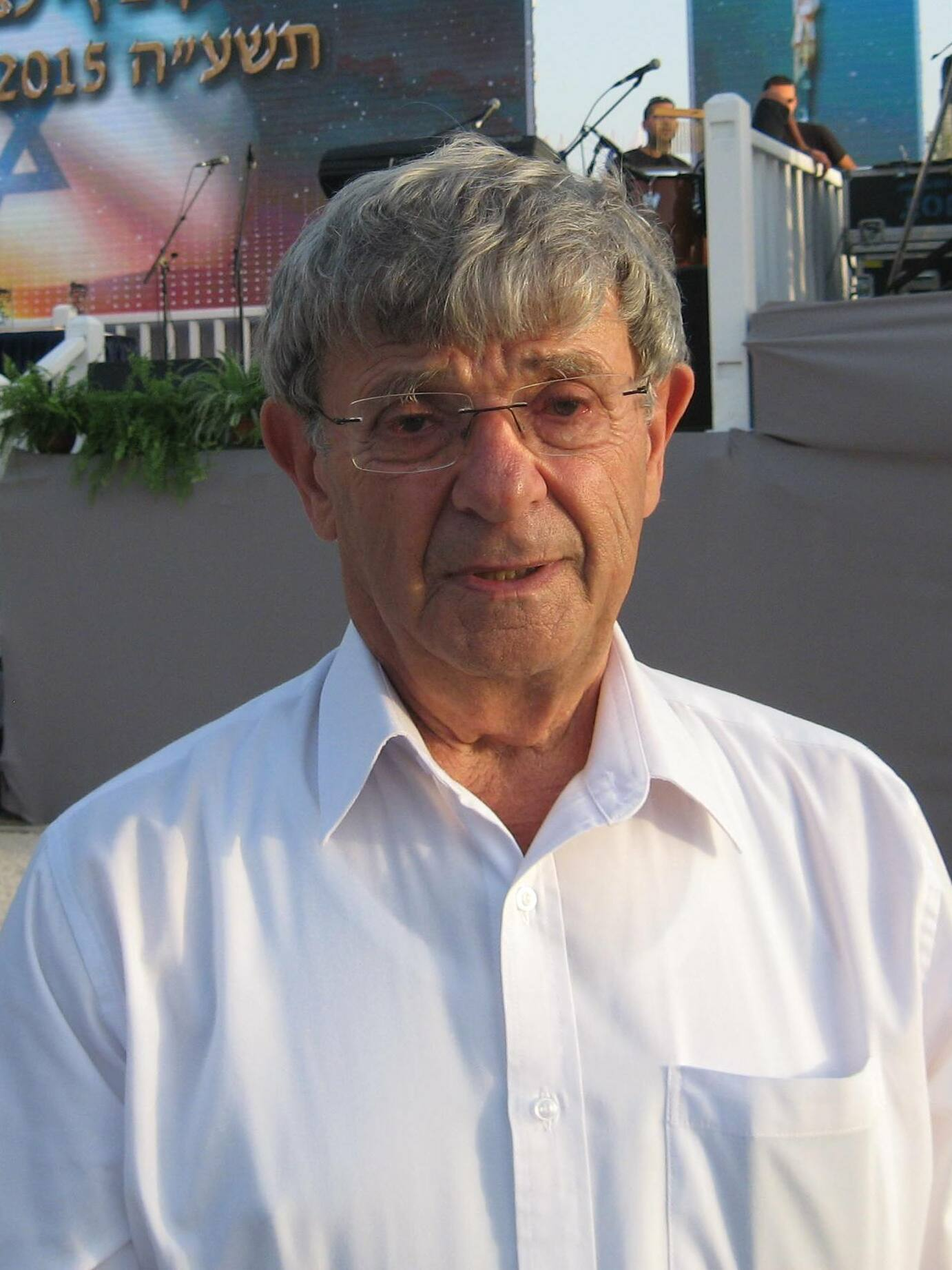 Yisrael Harel, Israeli journalist, leader of the Zionist settlement movement